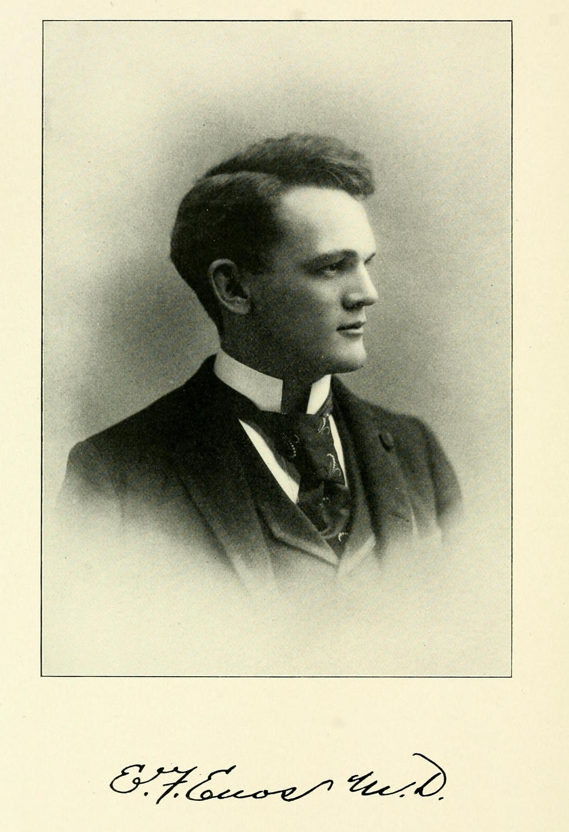 Emmet Enos, M. D.